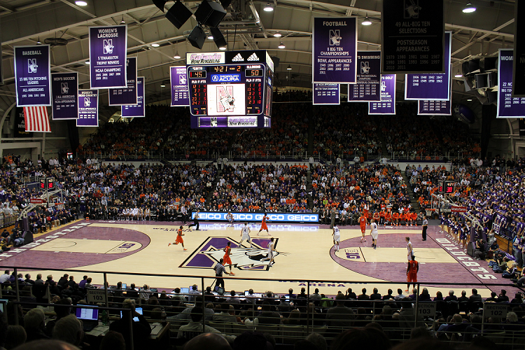 Welsh-Ryan Arena on January 4, 2012 as the Northwestern Wildcats hosts Illinois Fighting Illini in a men's basketball game.